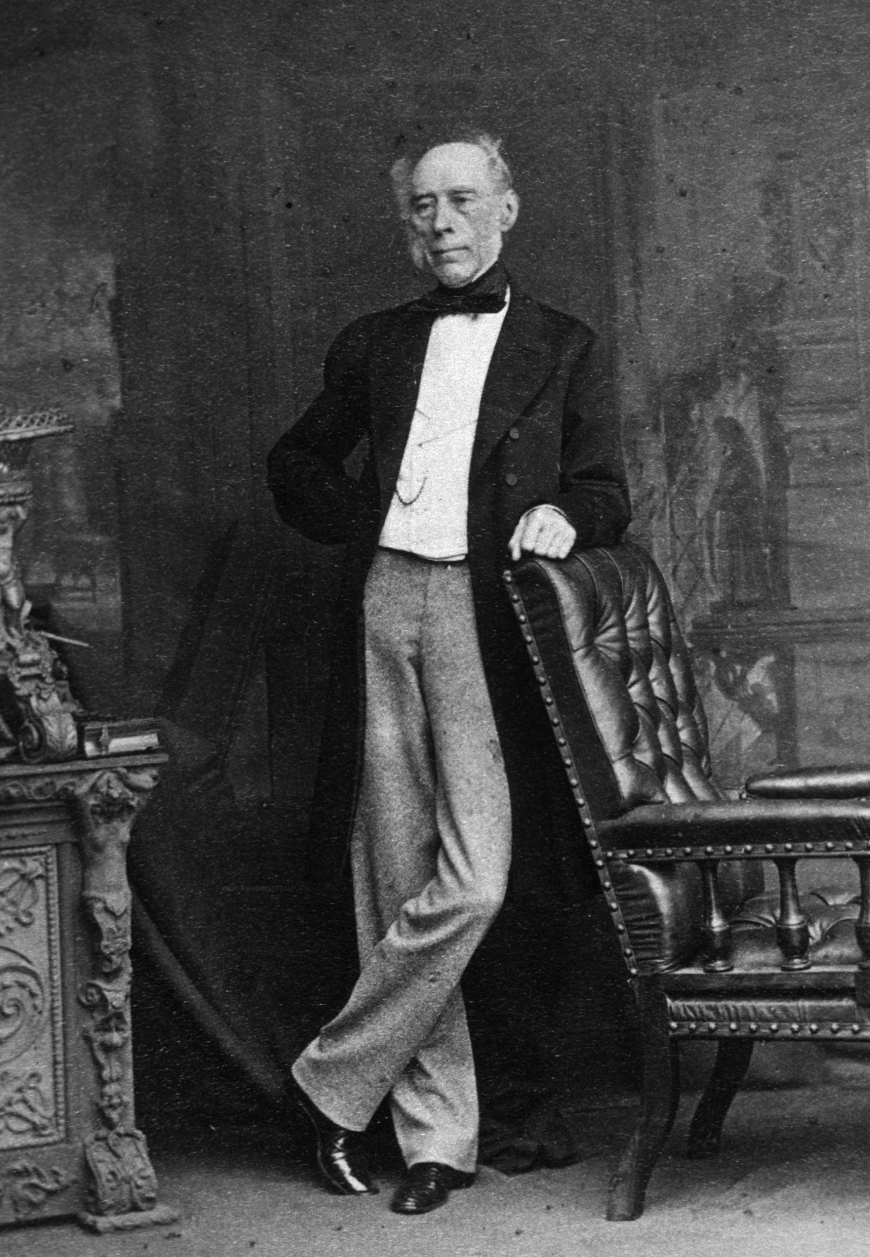 Sir James Clark, Bt., MD (1788-1870)